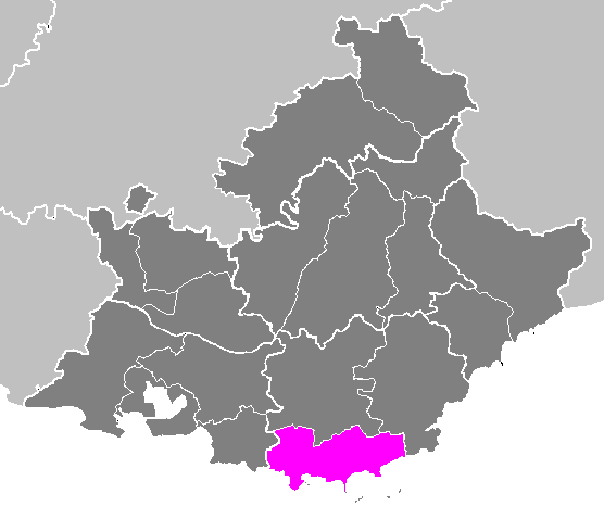 Maps of arrondissements and cantons of France: Arrondissement de Toulon.PNG